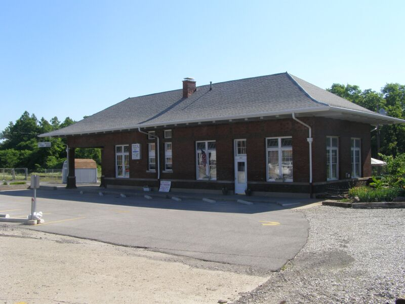 Amtrak Station (original) in Crawfordsville, Indiana, USA.